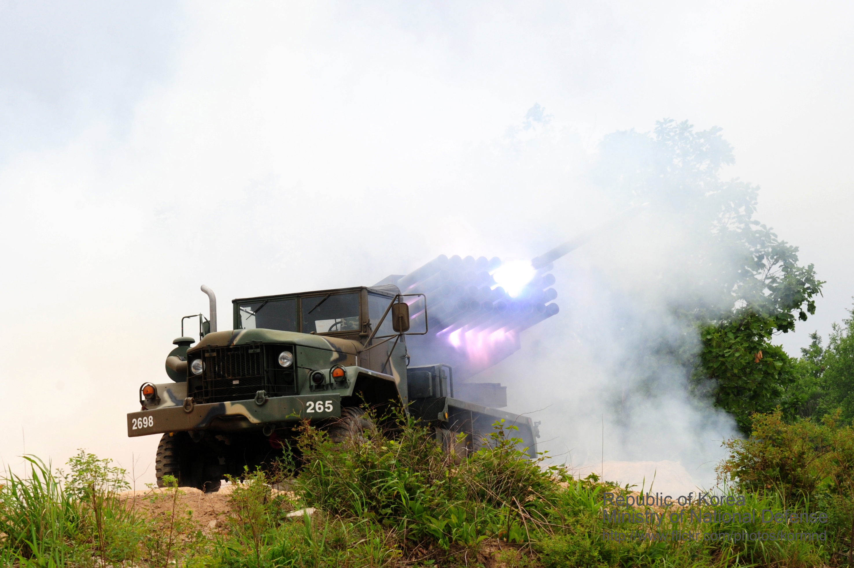 2012.6 국군 통합화력전투훈련 Rep.of Korea Armed Forces Joint Combat Fire Drill